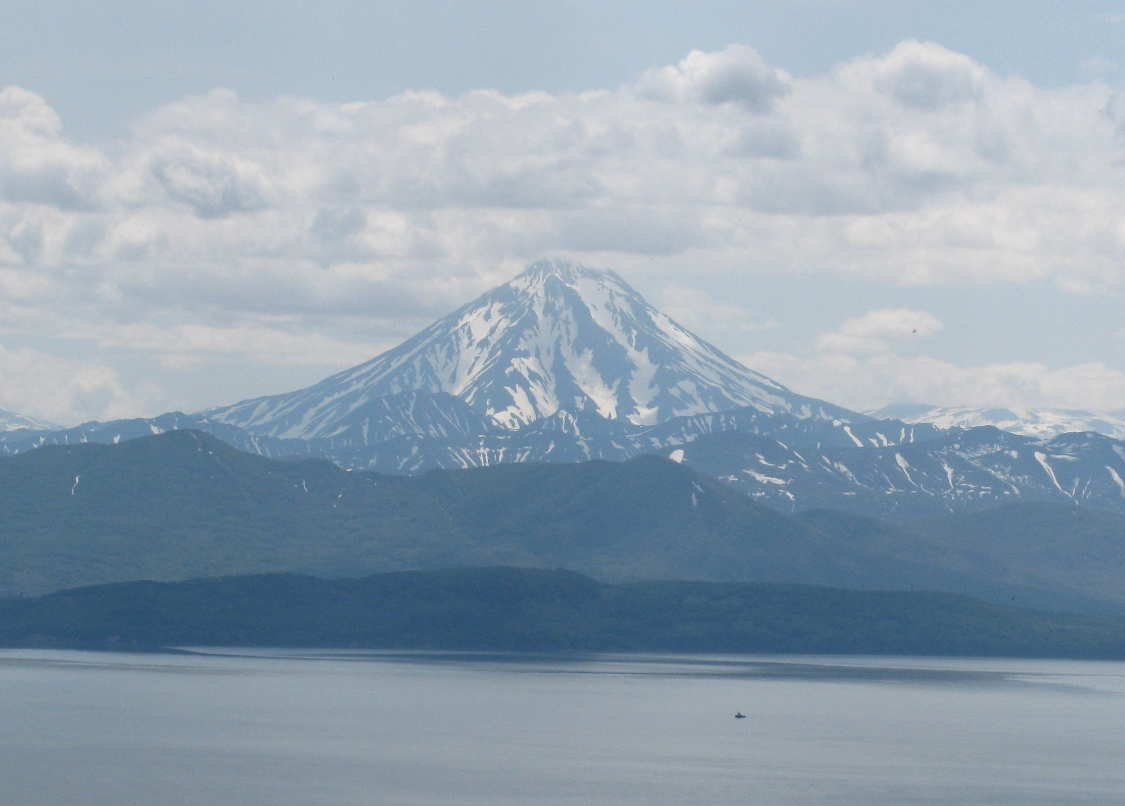 Vilyuchik Volcanoe, Kamchatka, Russia